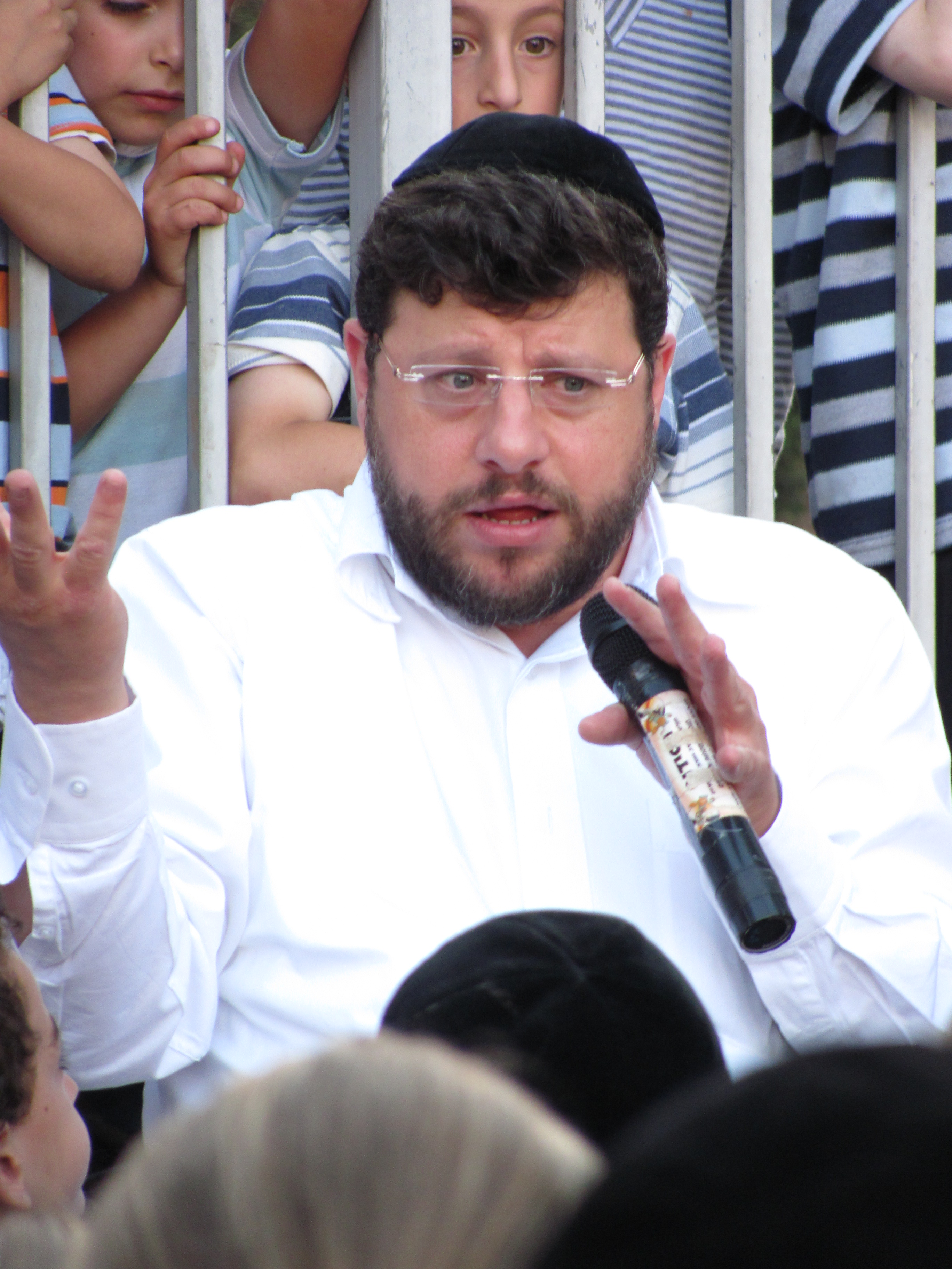 Chaim Walder, bestselling Israeli author of books for Haredi children, tells stories at an outdoor event sponsored by the Jerusalem municipality.